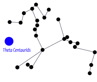 This is an approximation of where the Theta Centaurids is located.